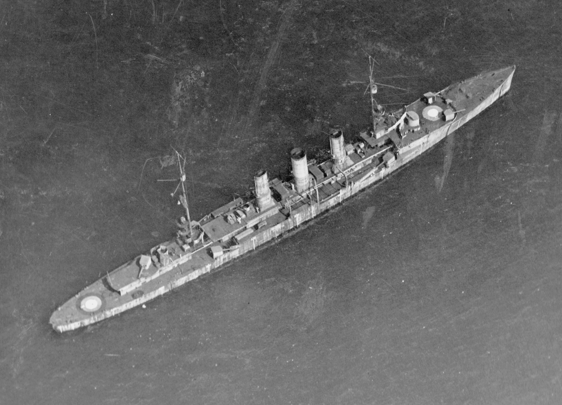 Aerial view of the former German cruiser SMS Frankfurt as a target ship during bombing tests conducted by Army and Navy aircraft off the Virginia Capes during July 1921. She was bombed with 250, 300, 320, and 600-pound bombs and sunk on 18 July 1921.